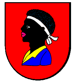 coat of arms city of Avenches (Switzerland)